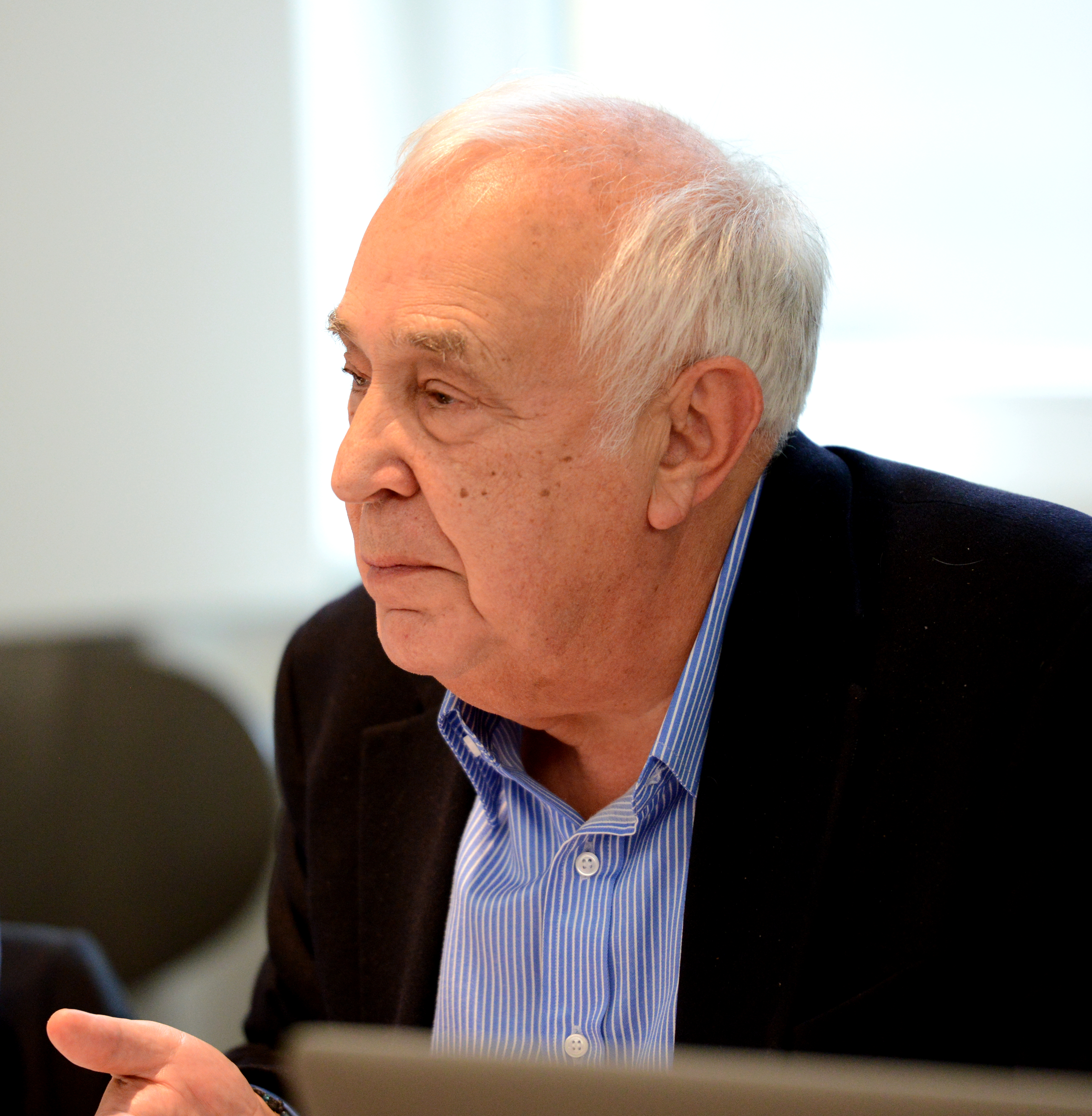 Institut d'études européennes et internationales du Luxembourg, Conference on The Politics of Virtue: the crisis of liberalism and the post-liberal future. A book manuscript by John Milbank and Adrian Pabst, Luxembourg, 17 and 18 October 2014. Robert Skidelsky, Emeritus Professor of Political Economy, Warwick University; Life Peer, House of Lords, UK